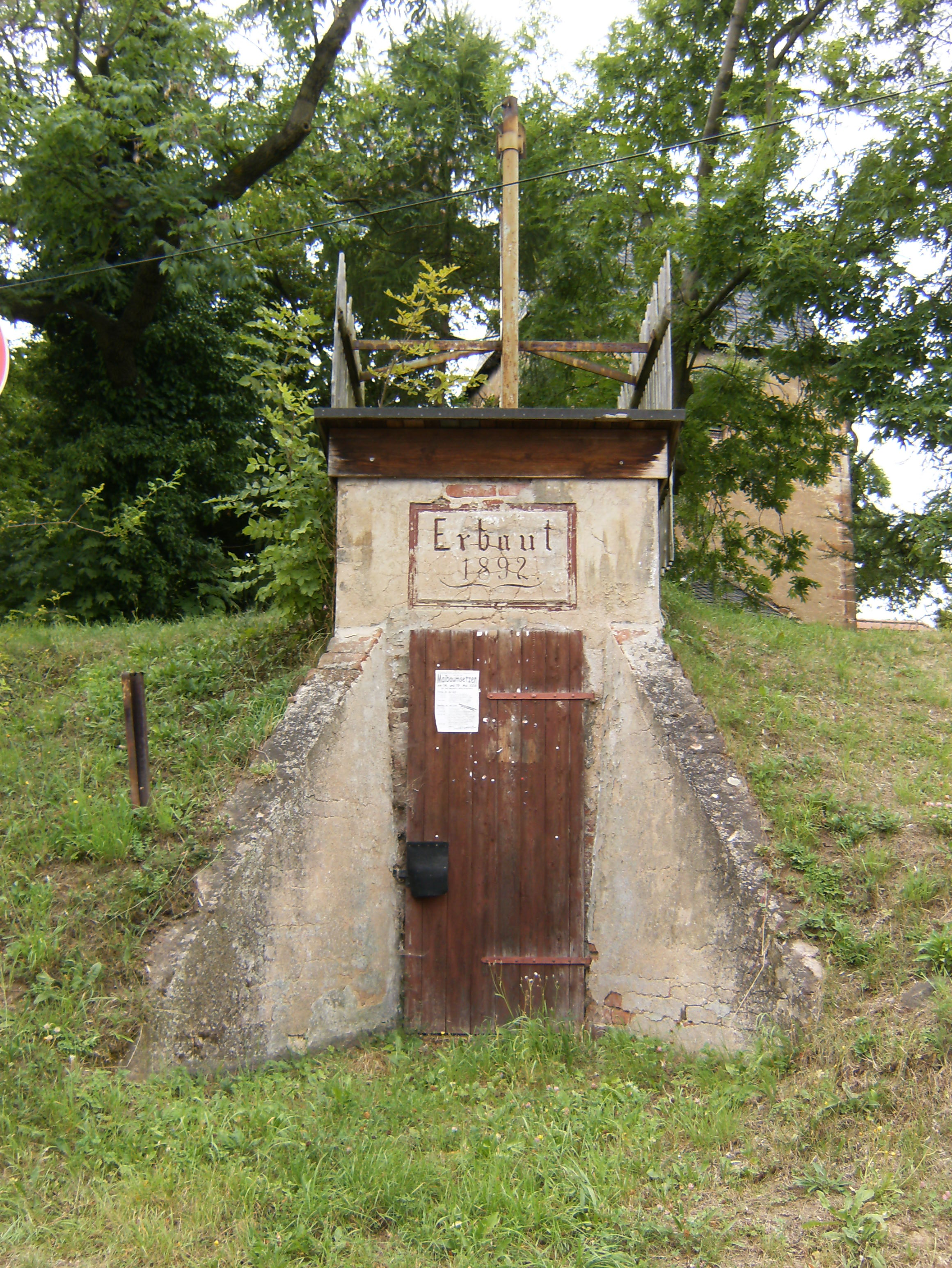 Taubenpreskeln, water conveyor from 1892.